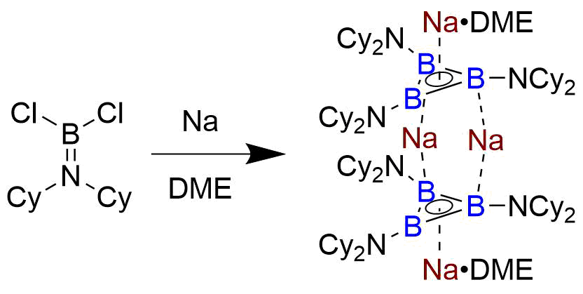 Na4[B3(NCy2)3]2 • 2 DME is synthesized by reduction of the aminoborane Cl2B=NCy2 (Cy = cyclohexyl) with Na sand in dimethyoxyethane (DME).